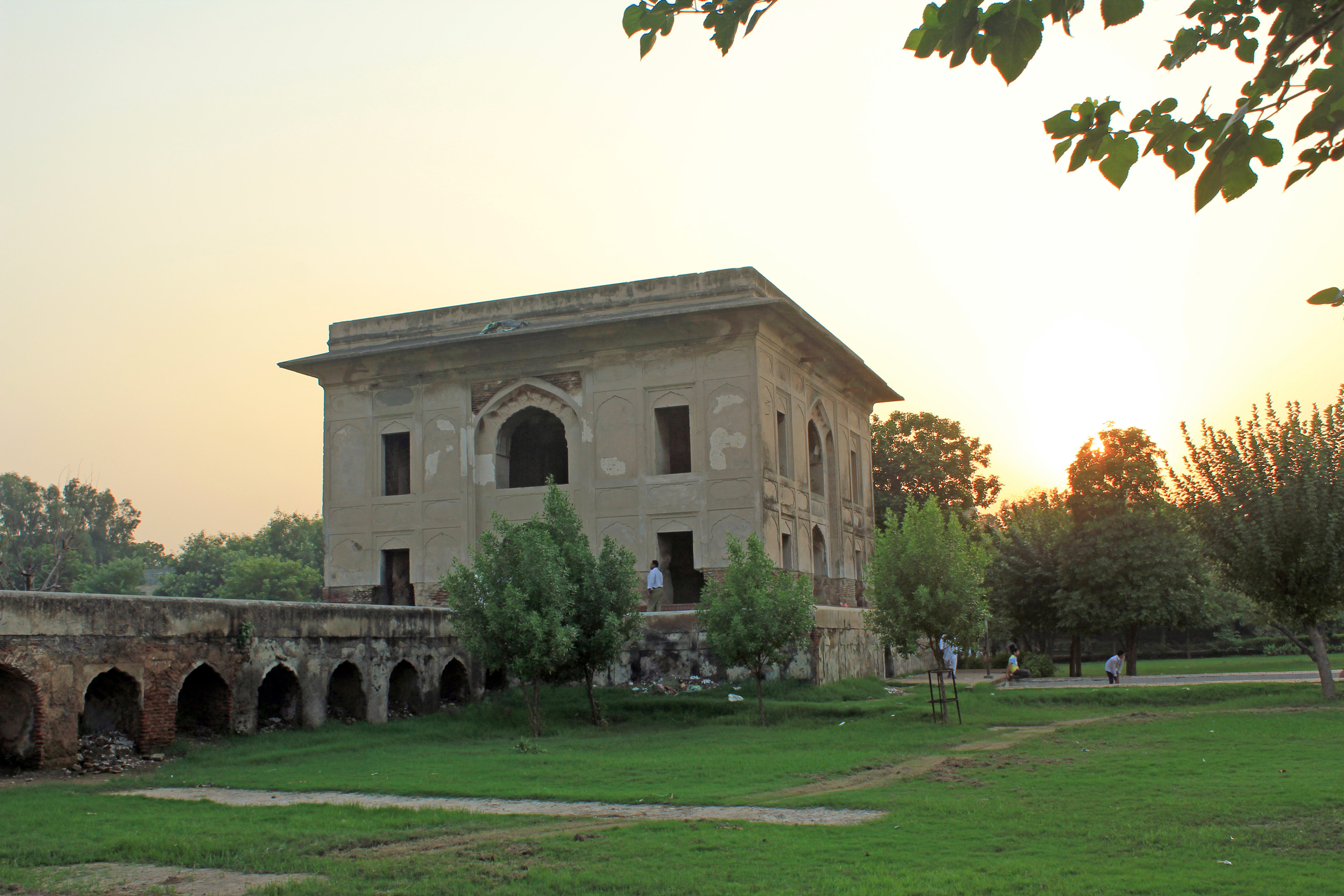 Tomb and Tank of Nadira Banu This is a photo of a monument in Pakistan identified as the PB-72